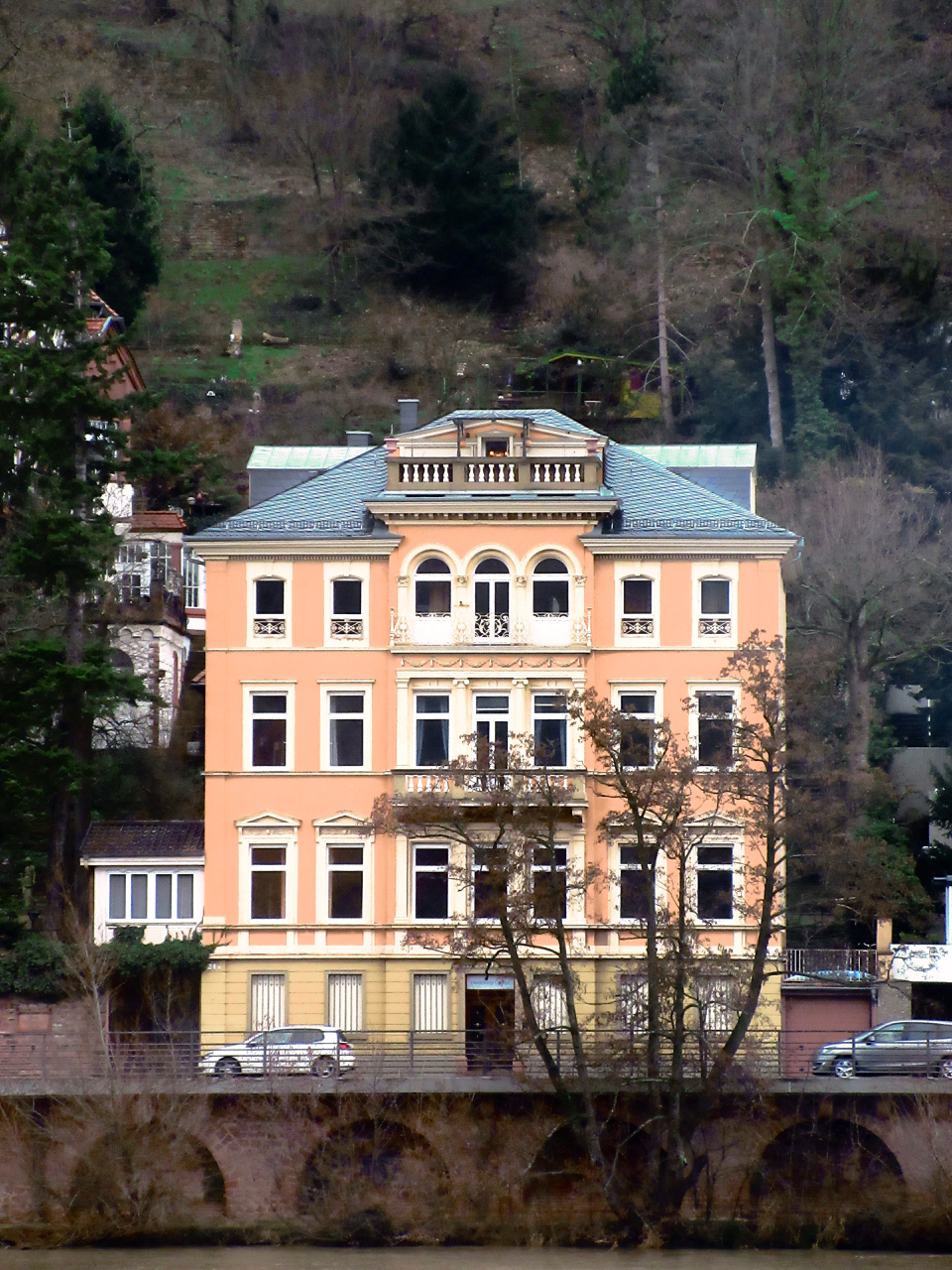 Townhouses in Heidelberg right by the river Neckar